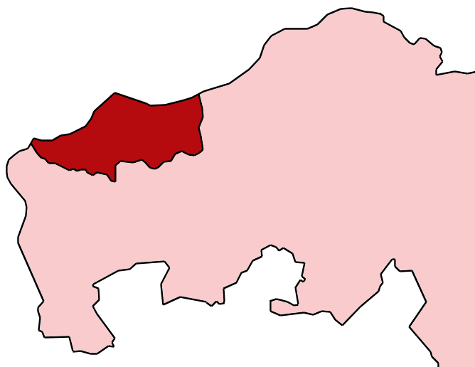 Based on File:2010-P10-Noord-Brabant-basisbeeld.jpg. Map of the Westhoek region in the Netherlands